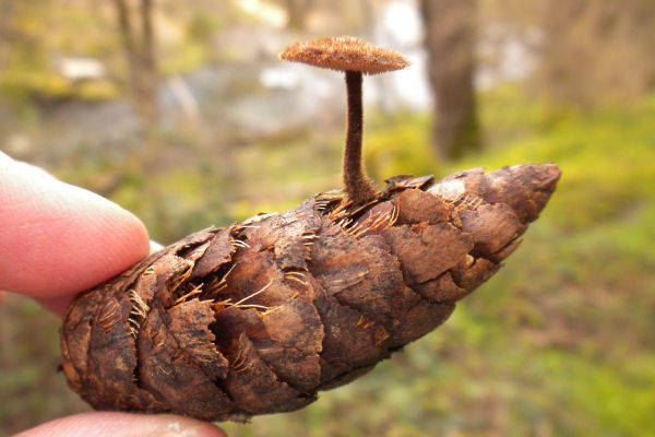 A fruit body of the "ear-pick fungus", Auriscalpium vulgare Gray. Photographed North Fork of the Trinity River, Trinity Co., California, USA. "Notes: Found emerging from Douglas Fir cone at base of north-facing slope in riparian zone along river. Heavily shaded, spring-fed, boggy and moss-covered area with mixed Douglas Fir, pines, Big Leaf Maple, willows and poison oak at approximately 3500 feet in the Trinity Alps Wilderness."